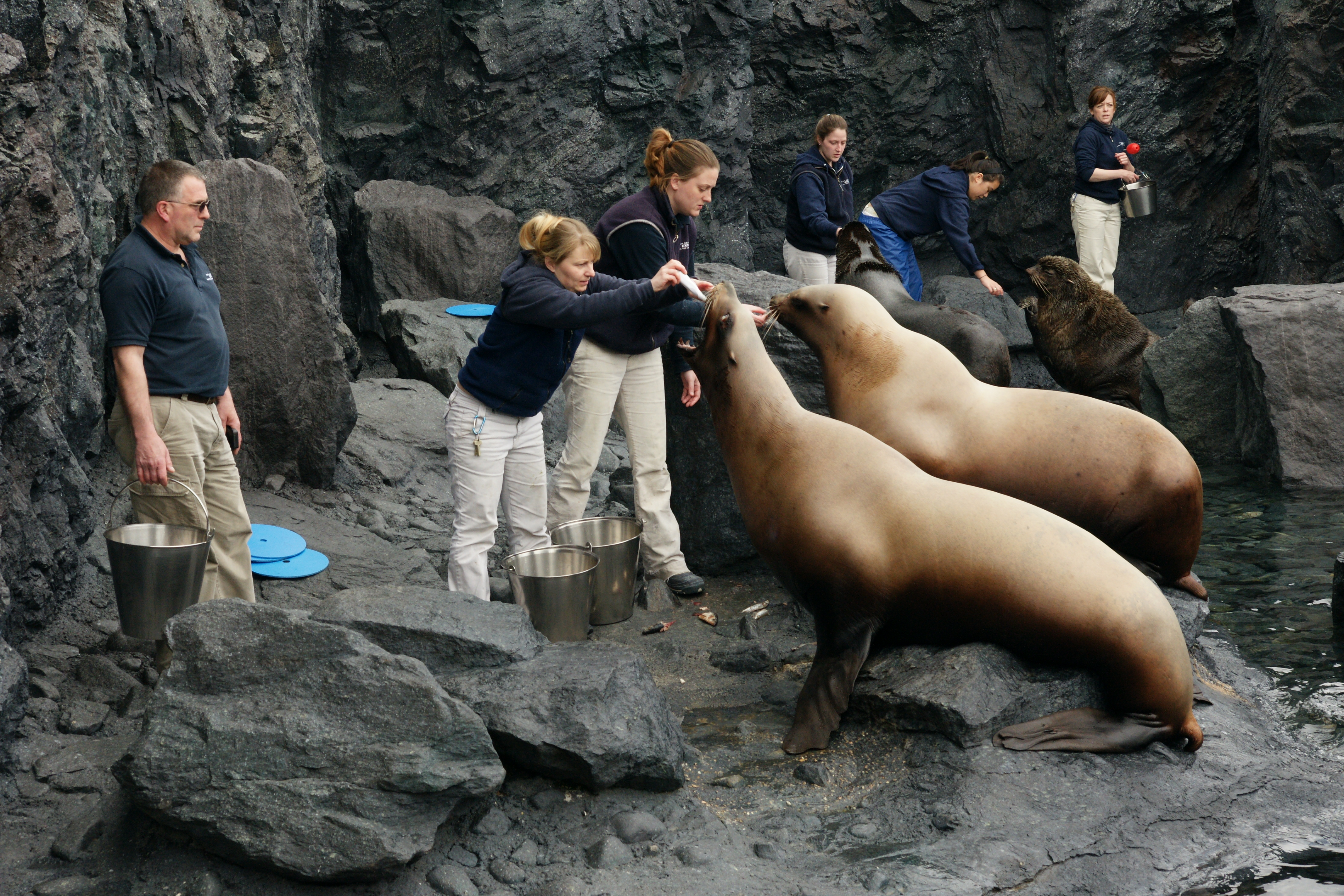 Feeding various sea animals at the Mystic Aquarium & Institute for Exploration